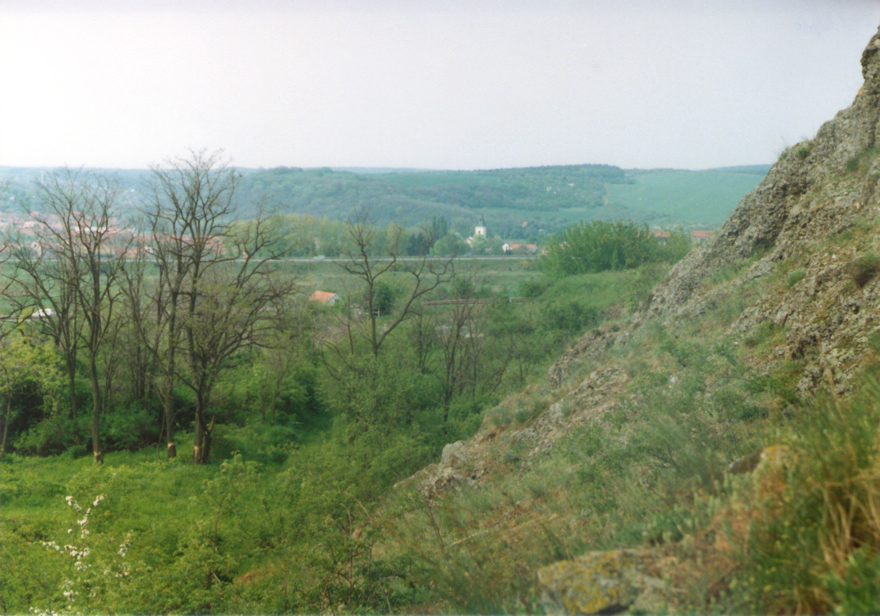 Former stone quarry at Žuráň hill, in Podolí cadaster, Brno-Country District. Czech Republic.